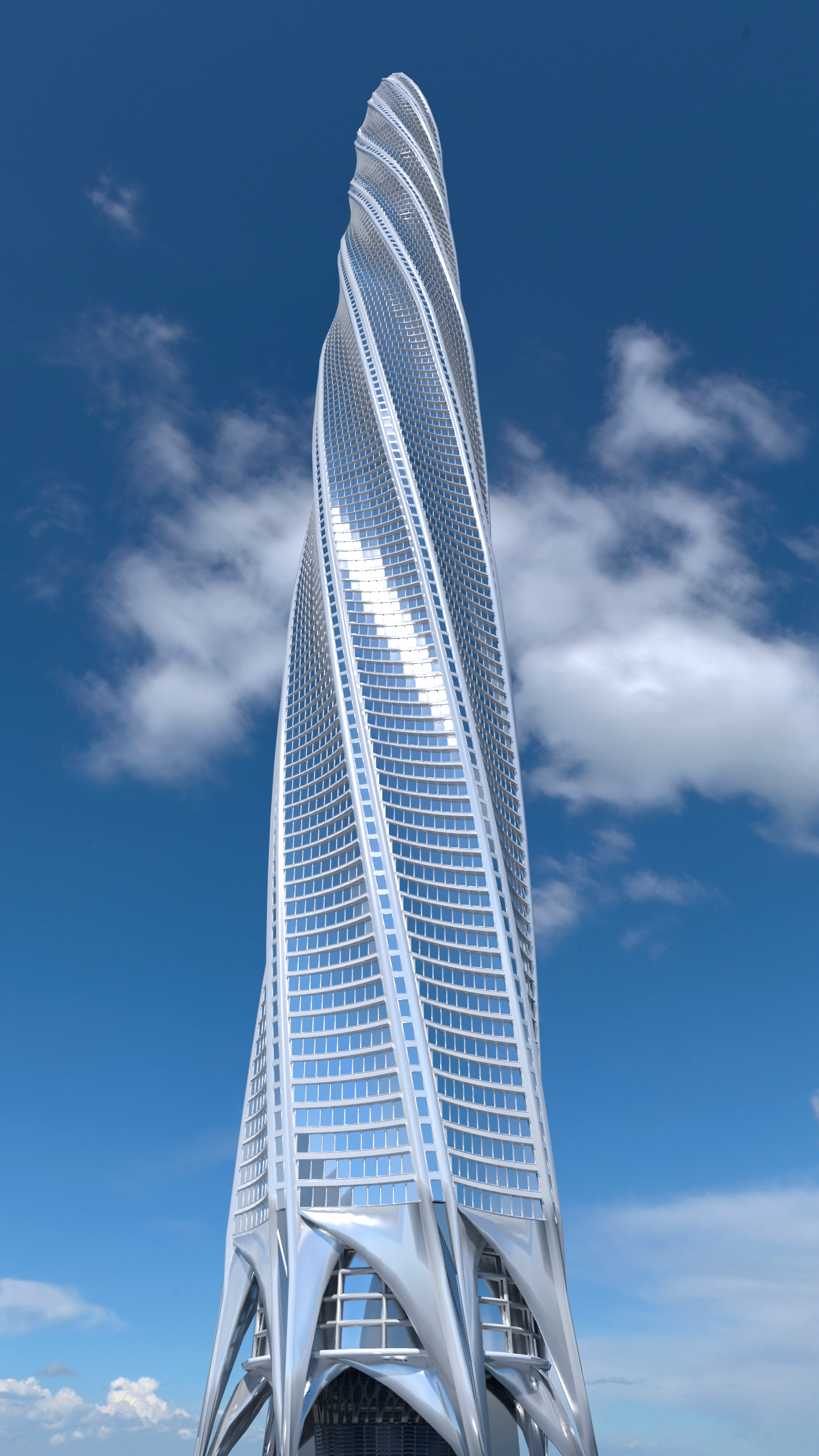 3D model of the "Chicago Spire", done with Blender 2.79